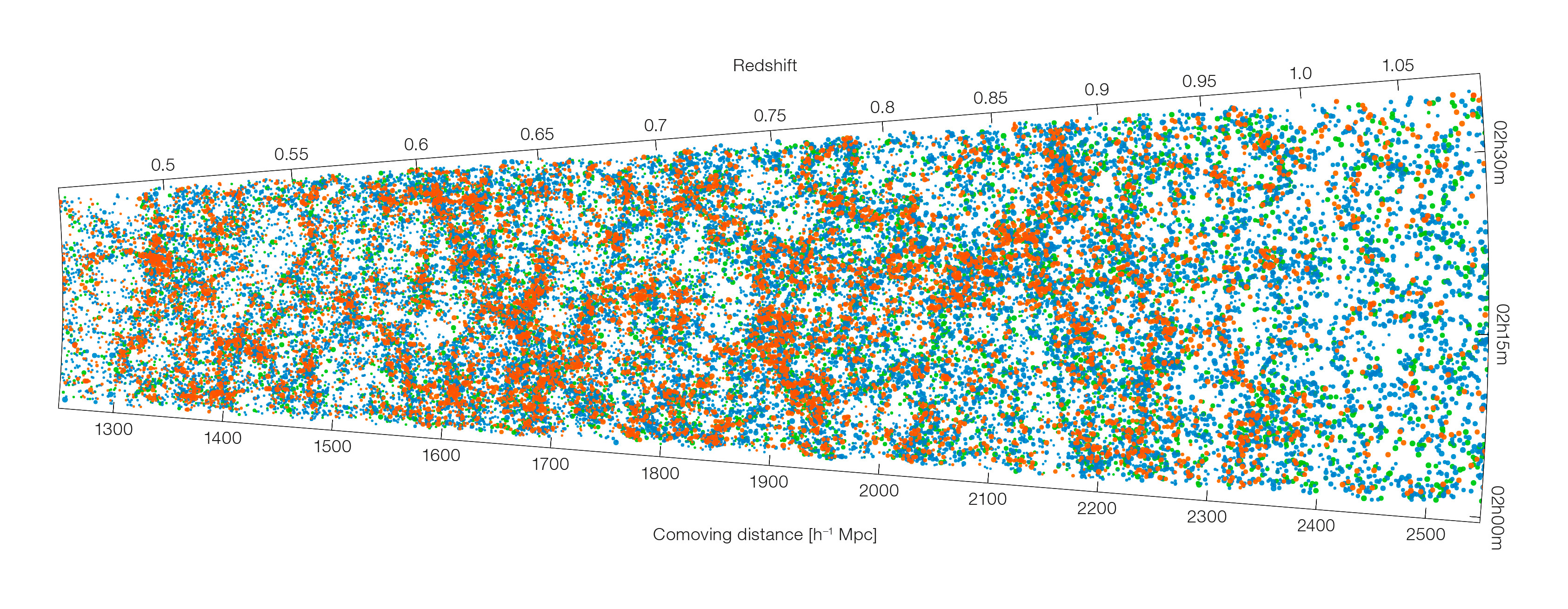 The positions in space of the galaxies identified by the VIPERS survey. This "slice" through the Universe shows where the galaxies lie as we look to ever greater distances in space — corresponding to looking further back in time. Data like these allow astronomers to study the evolution of galaxies as a constituent of the Universe, and tell us about how space itself evolves over time.